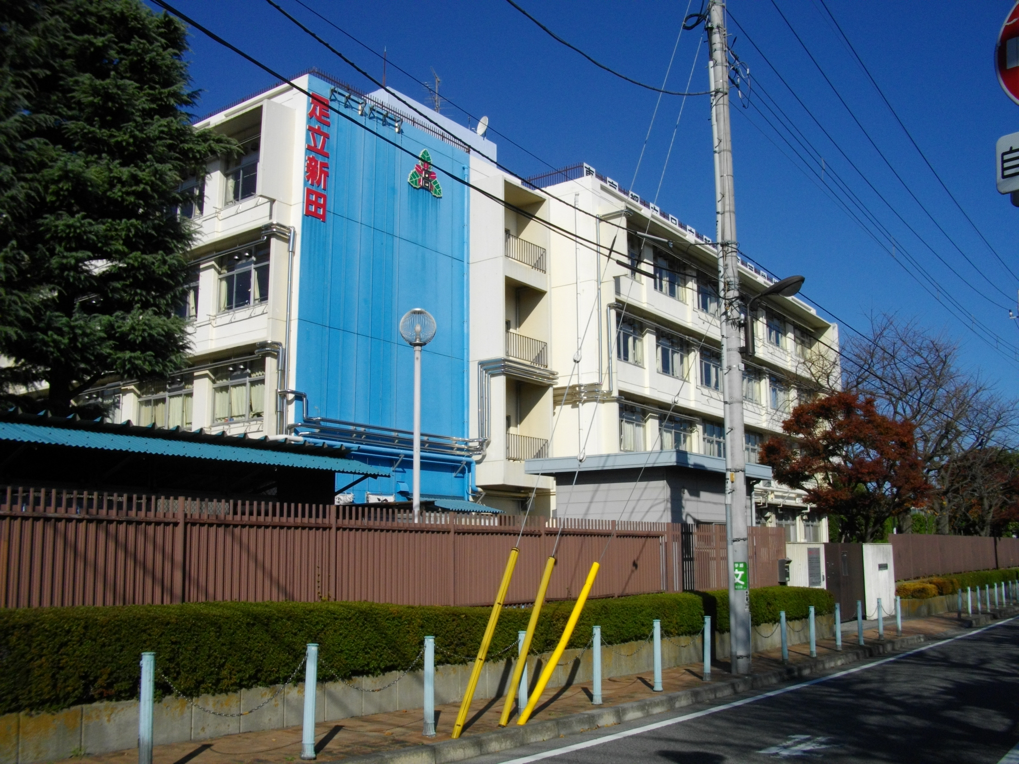 Adachi Shinden High School